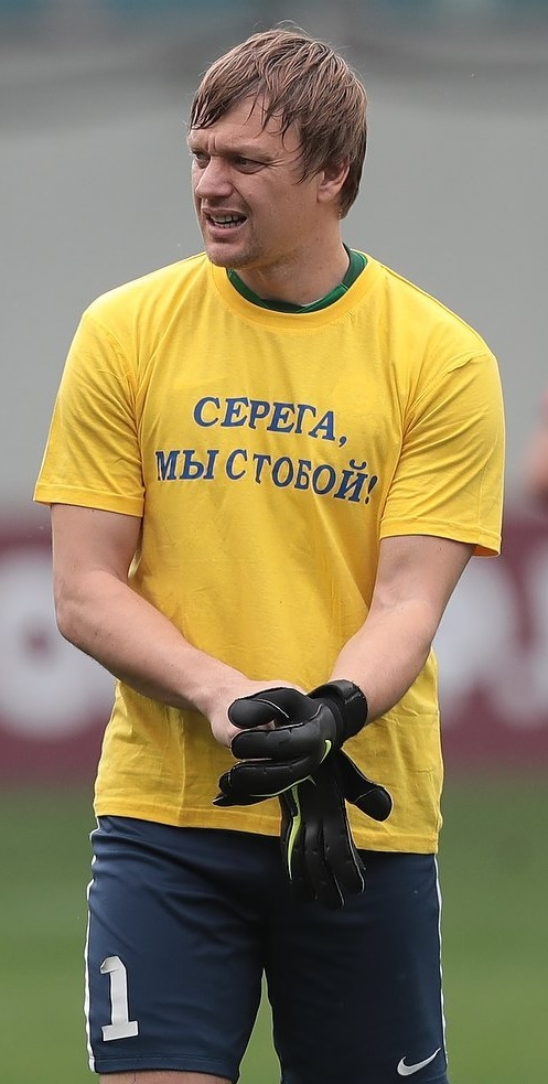 Aleksandr Kotlyarov with FC Luch Vladivostok in a game against FC Khimki.